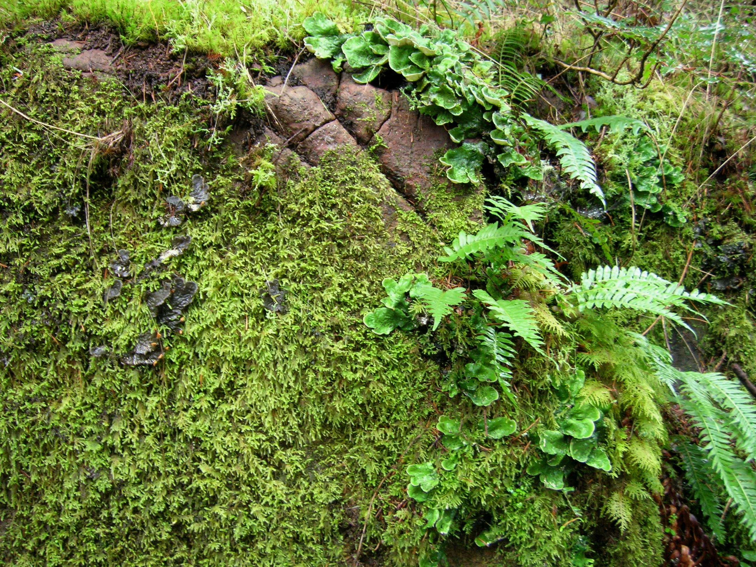 Licorice fern, Polypodium glycyrrhiza, Washington, U.S. The similar looking fern at right upper corner is western swordfern, Polystichum munitum